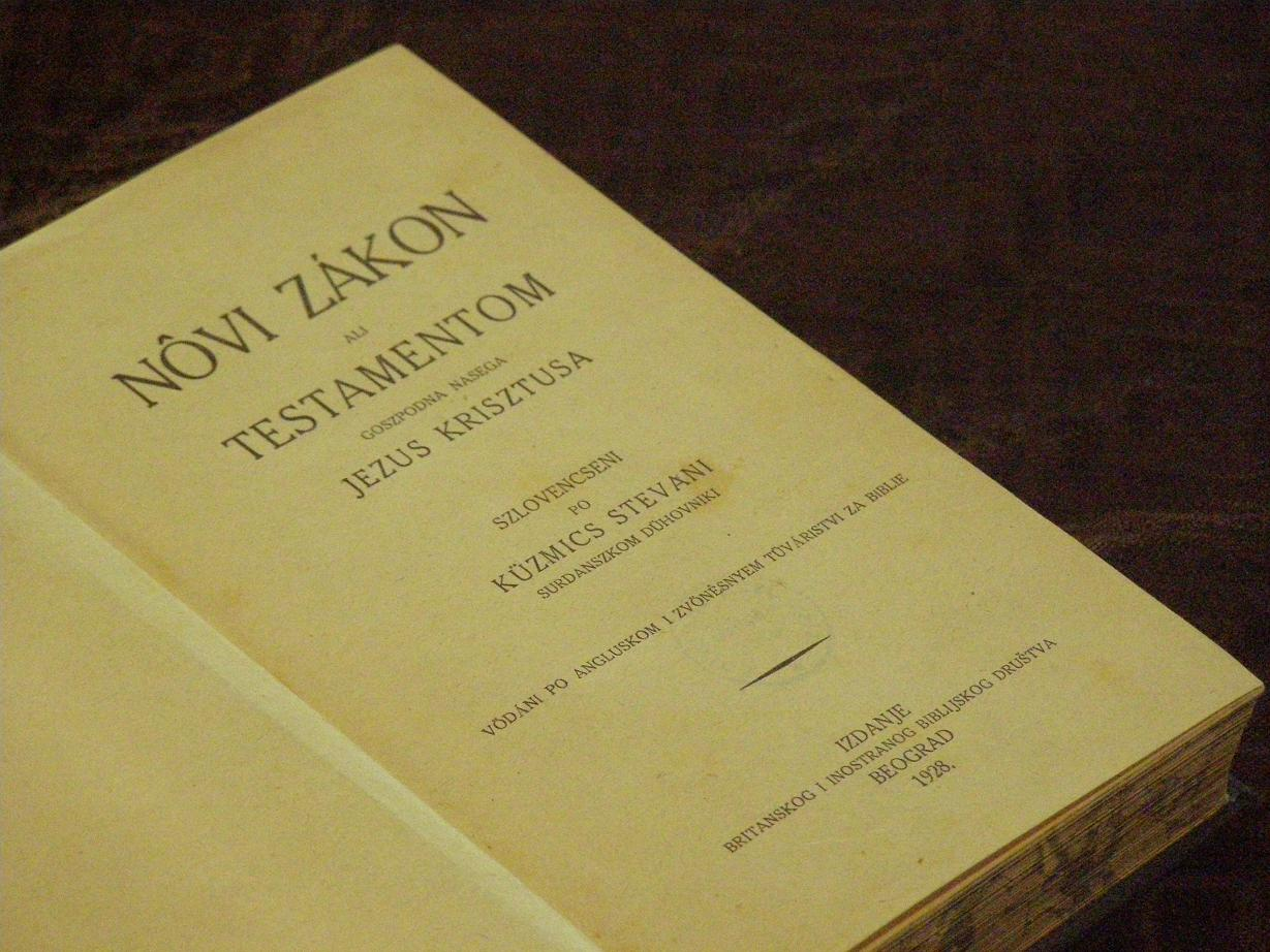 The Nouvi Zákon in 1928 (made in Beograd)